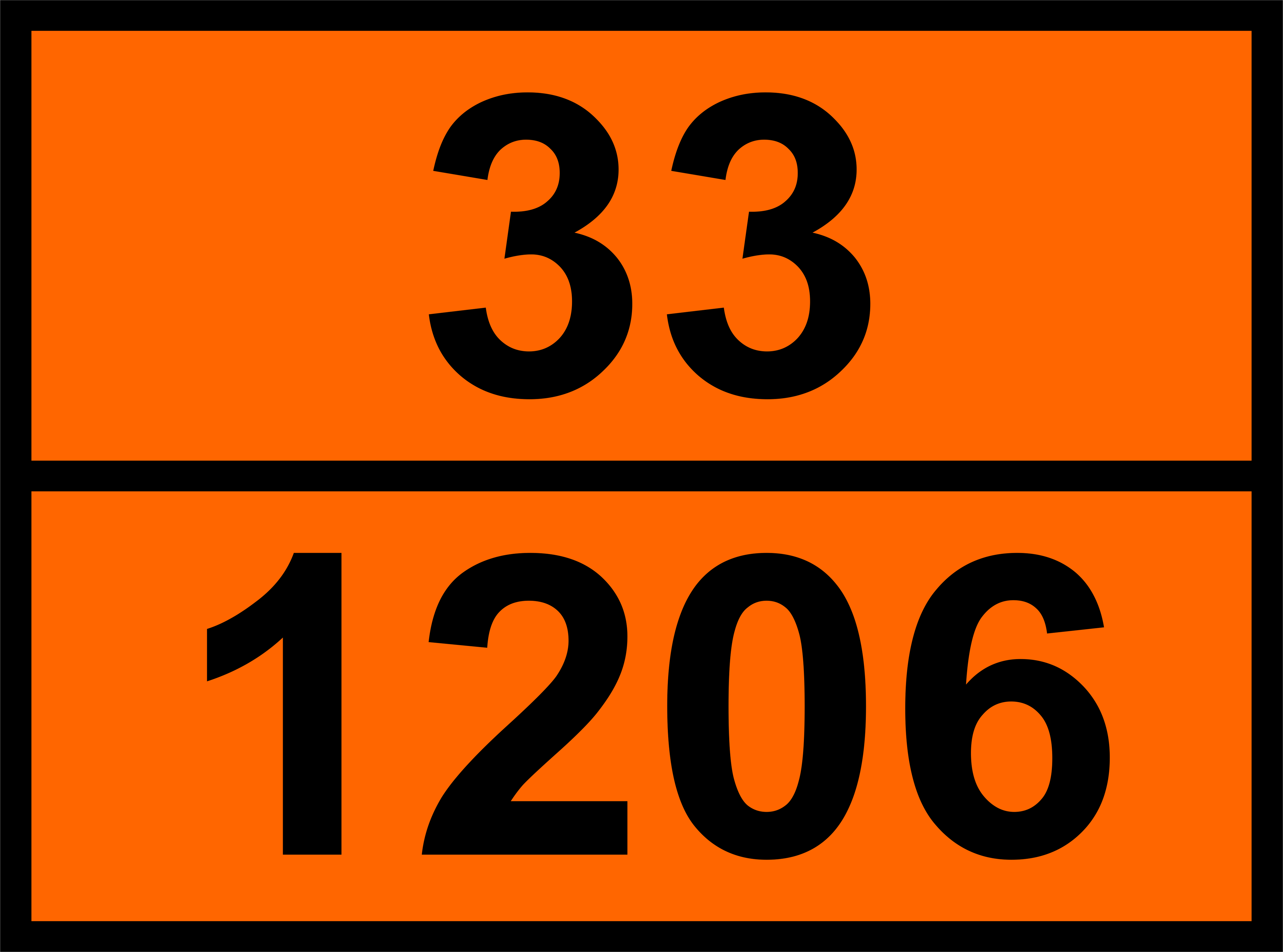 Heptane, ADR table